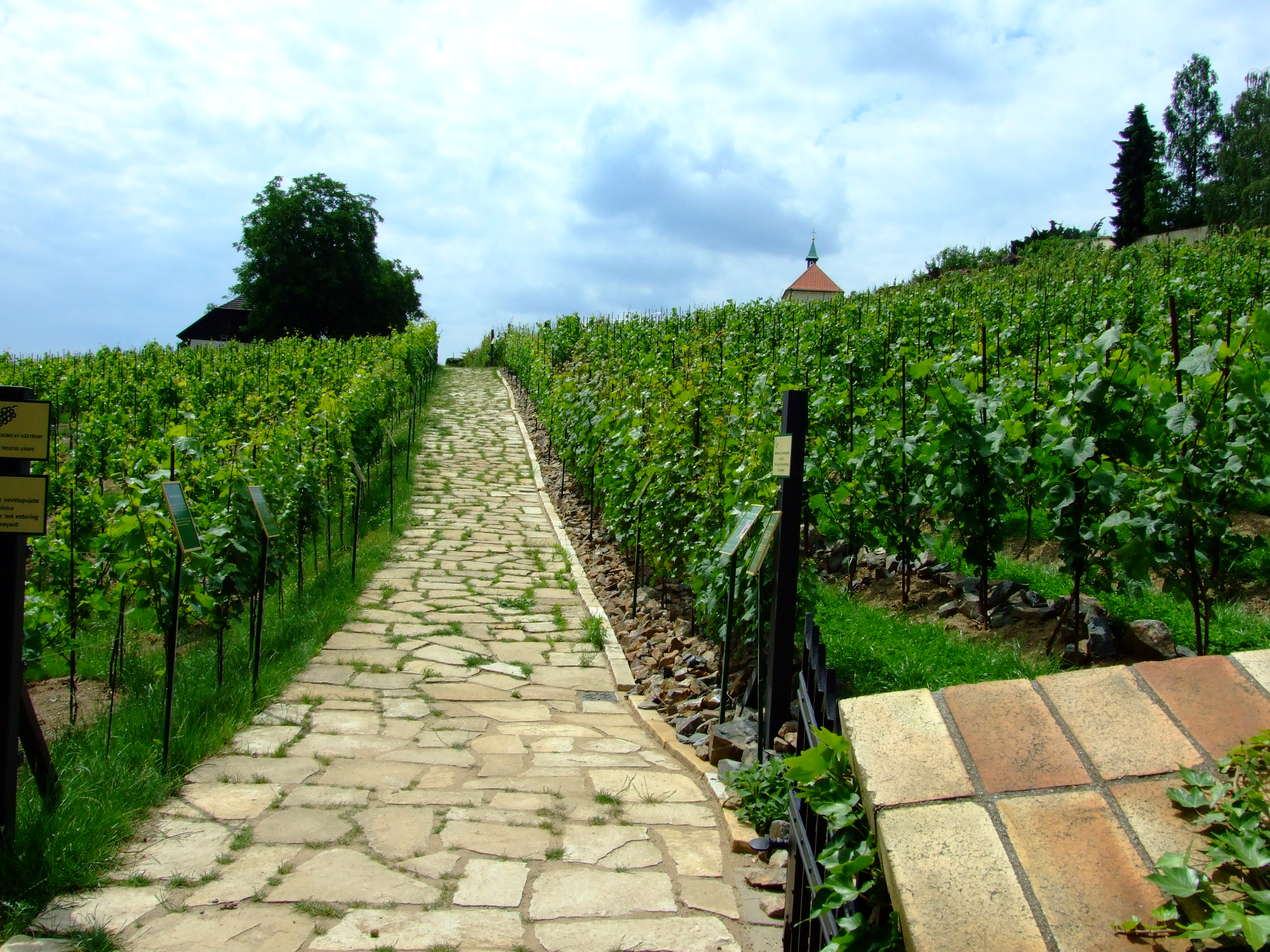 Botanical garden in Prague-Troja, saint Clare Wineyards